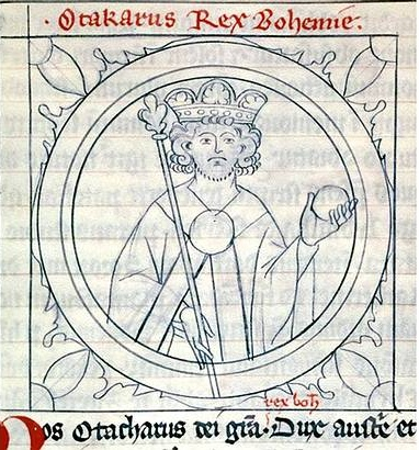 Ottokar II Premysl